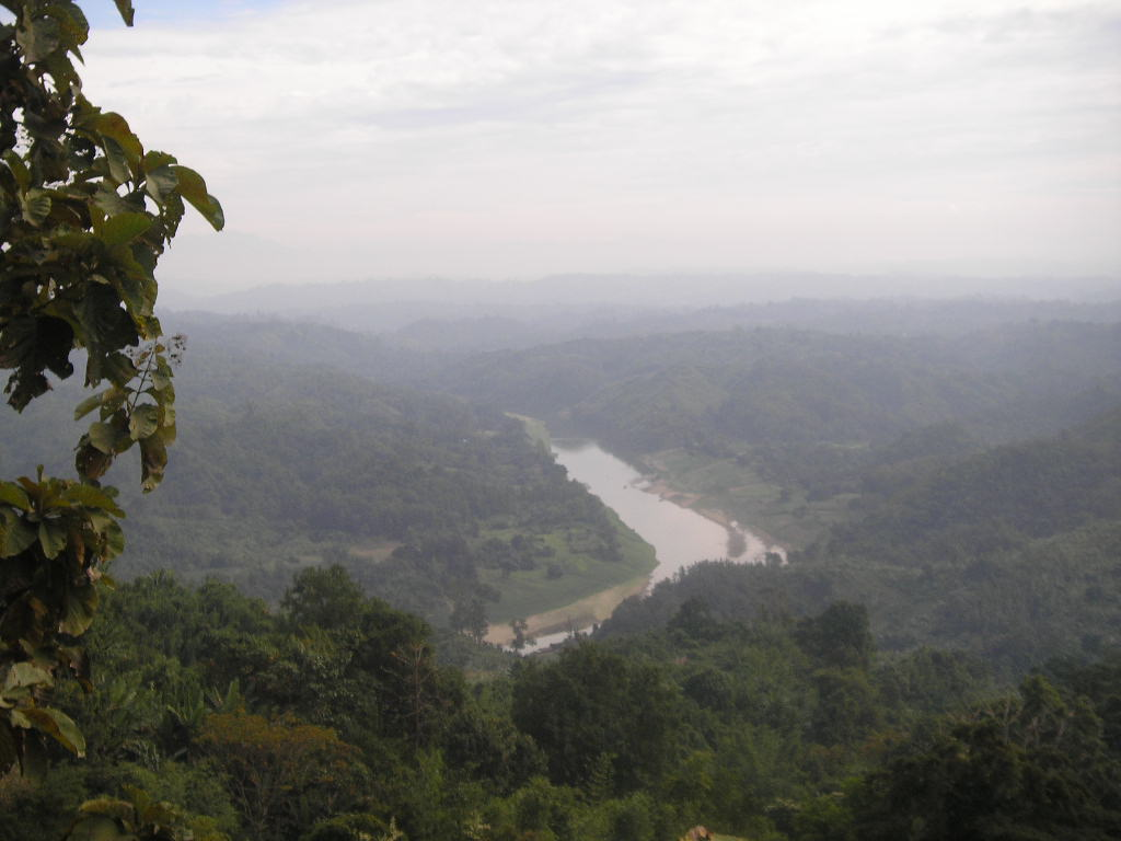 A bird's eye view of a river of Bandarban.